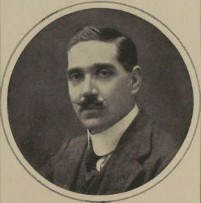 Charlie Cramp, former President of the National Union of Railwaymen and future General Secretary of the union